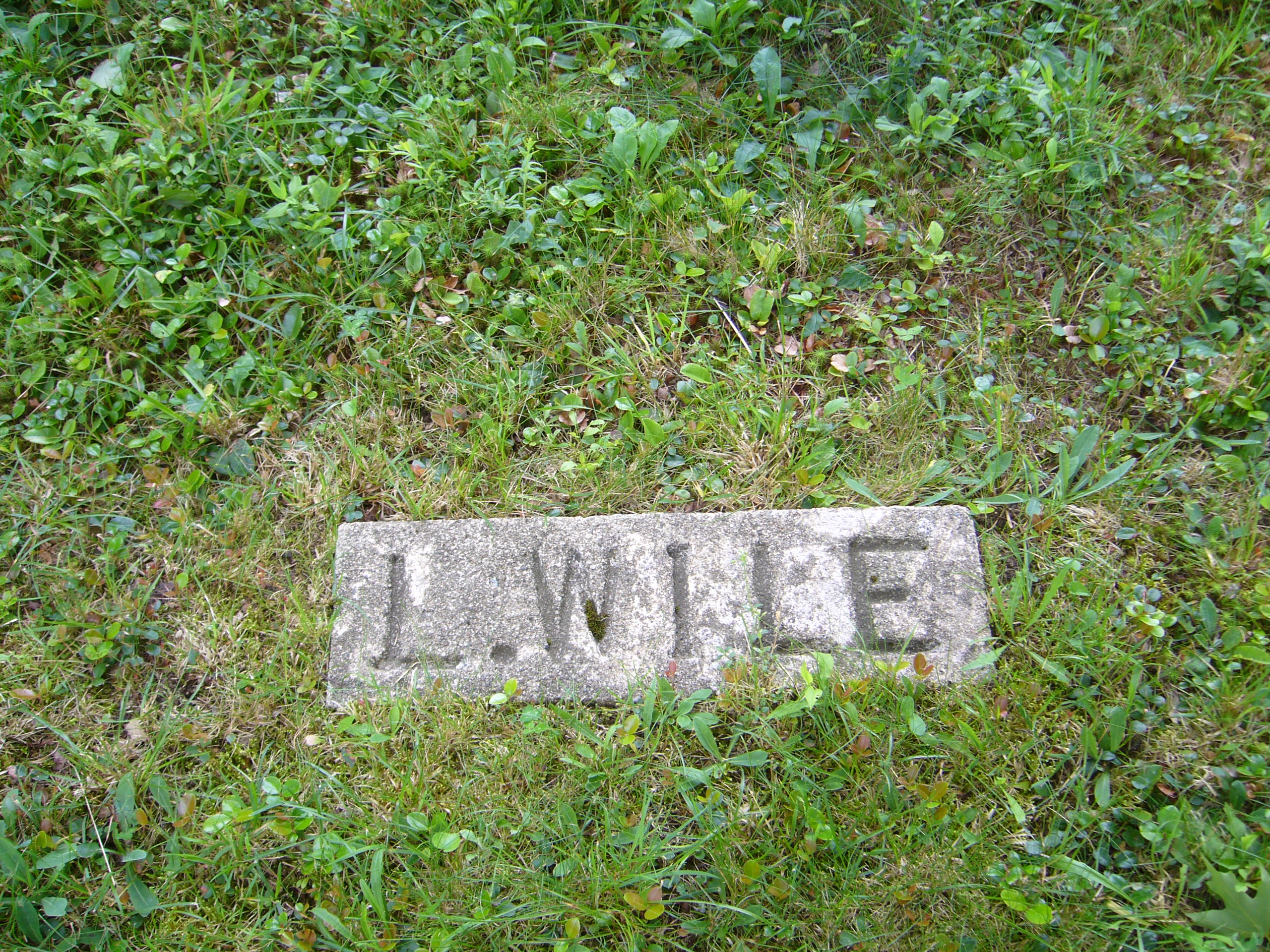 Lucy Salome Hirtle Wile, wife of George "Michael" Wile daughter of Michael Hirtle, Newcombville